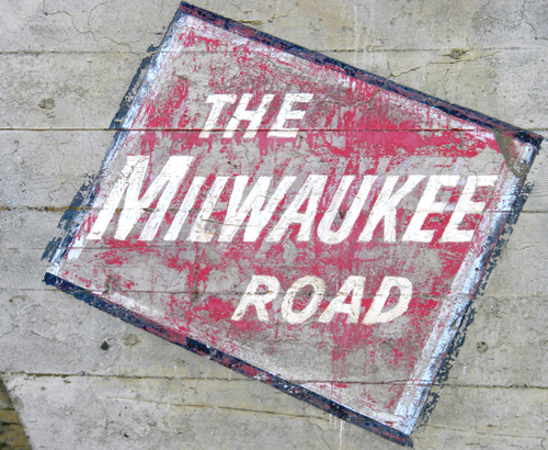 An aged logo of The Milwaukee Railroad as seen on 6 Sept 2009 on a trestle just south of Rosalia Washington, USA, at 47° 13′ 20.2″ N × 117° 21′ 47.8″ W.